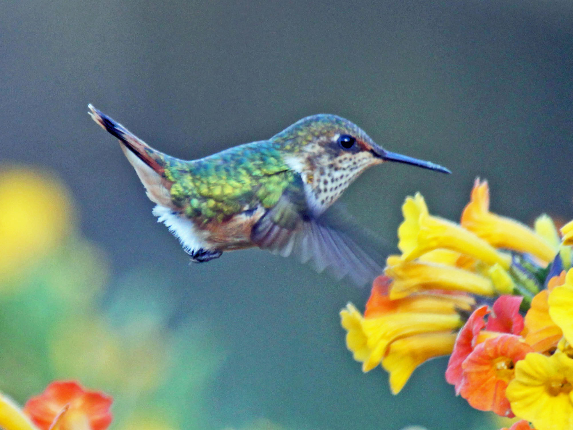 Female Volcano Hummingbird (Selasphorus flammula) - Boquette, Panama